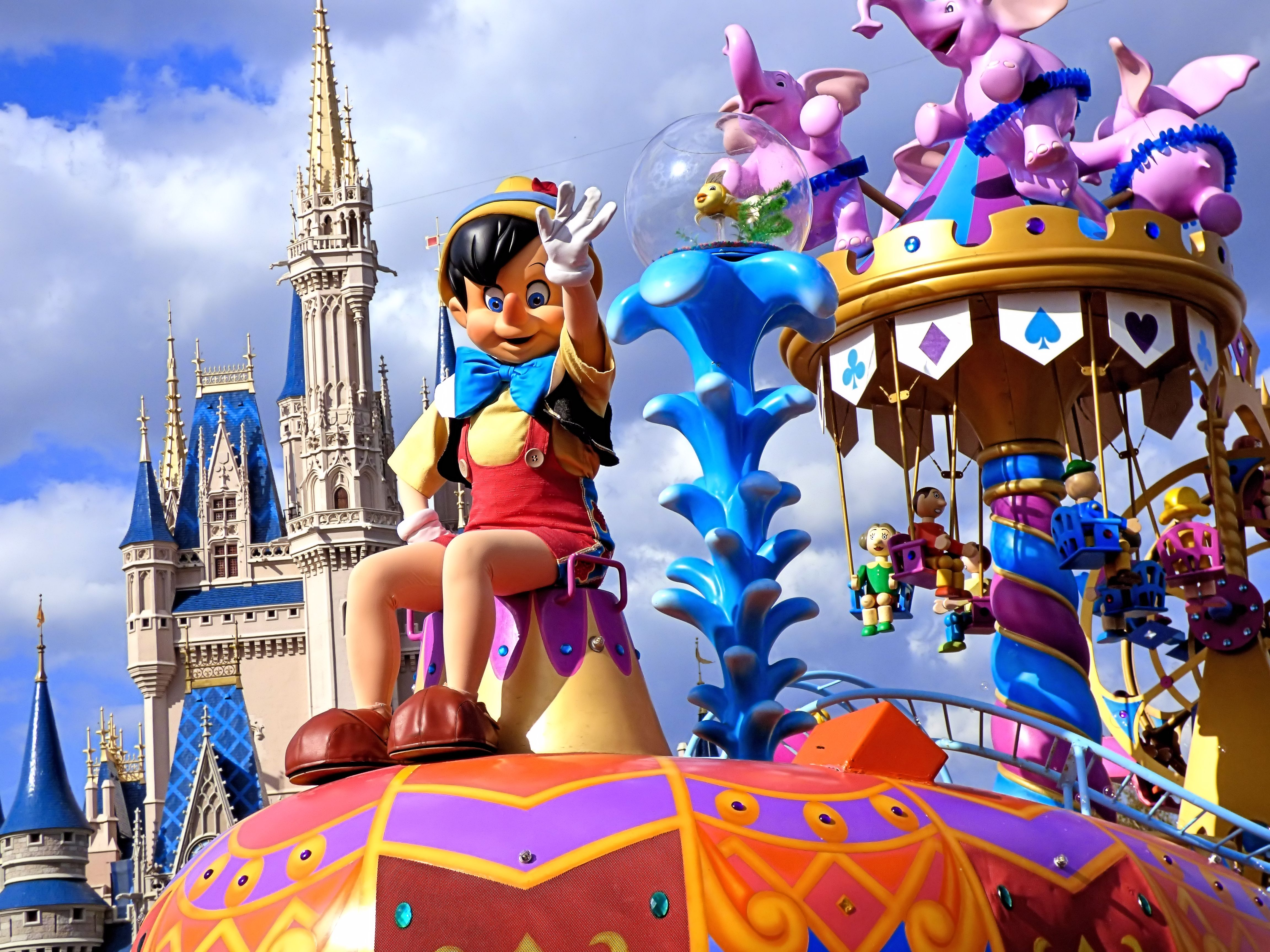 Disney's Festival of Fantasy Parade Finale